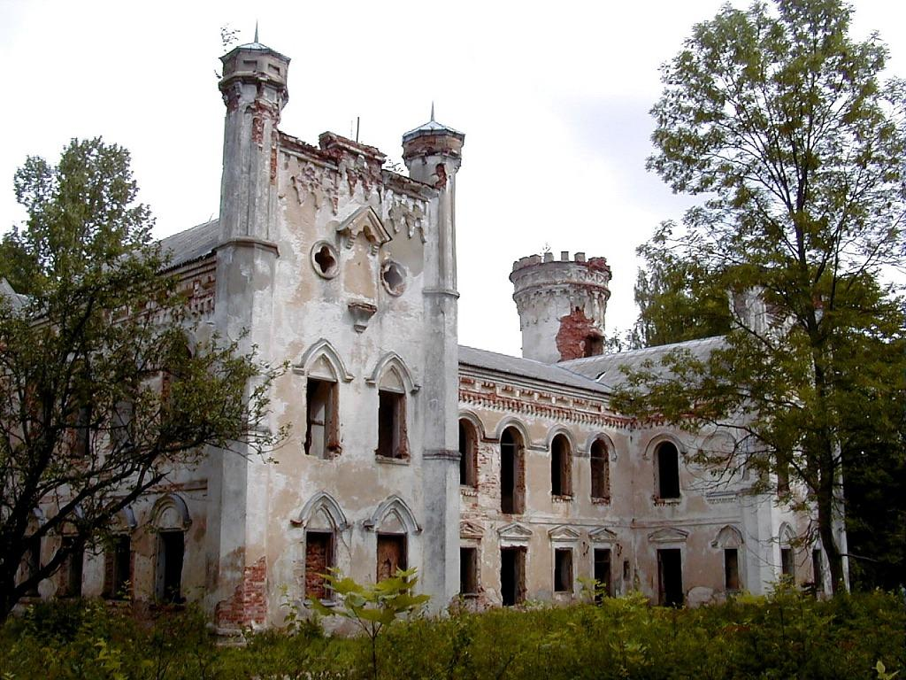 Preiļi Palace